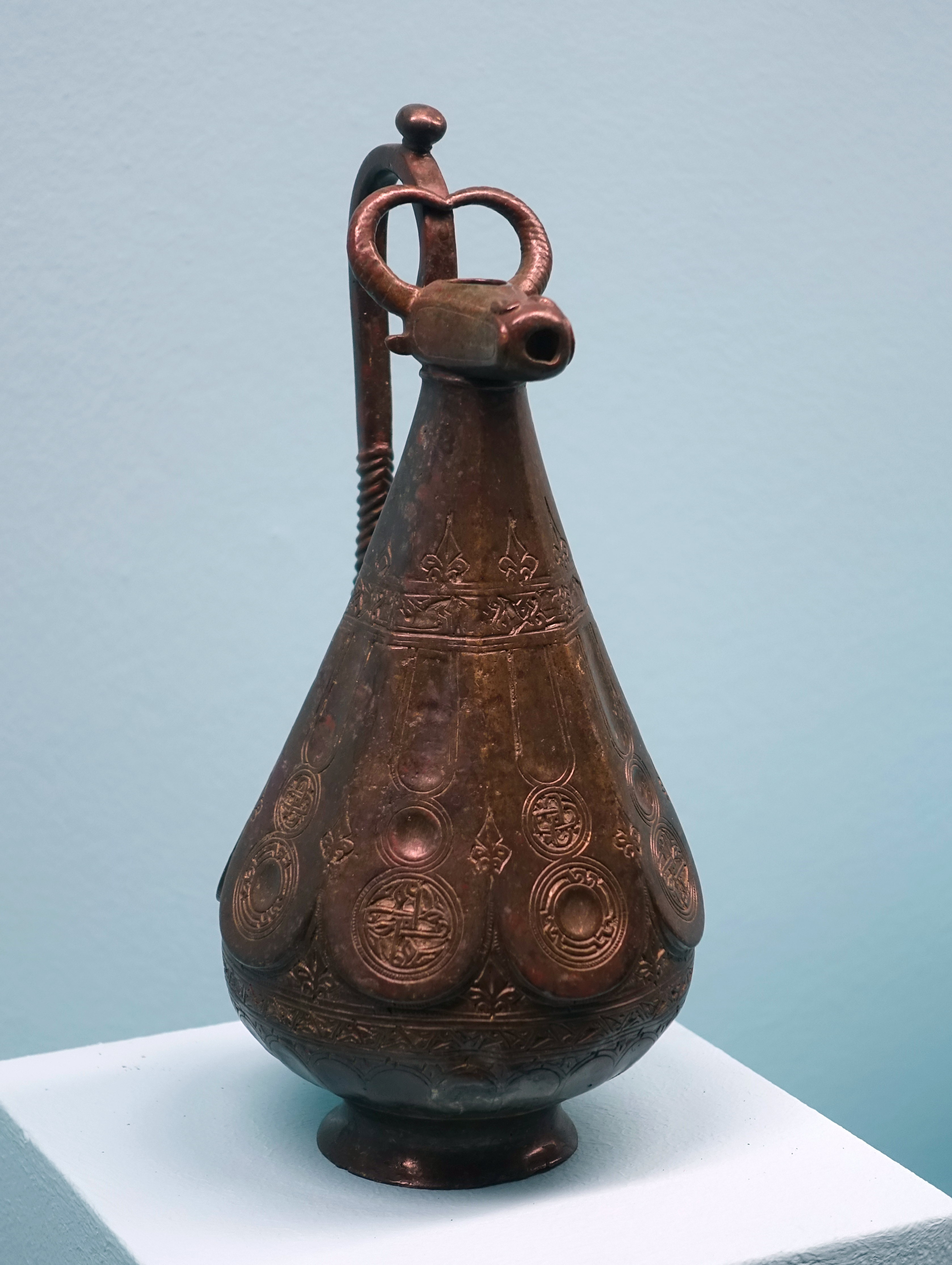 Exhibit in the Linden-Museum - Stuttgart, Germany.